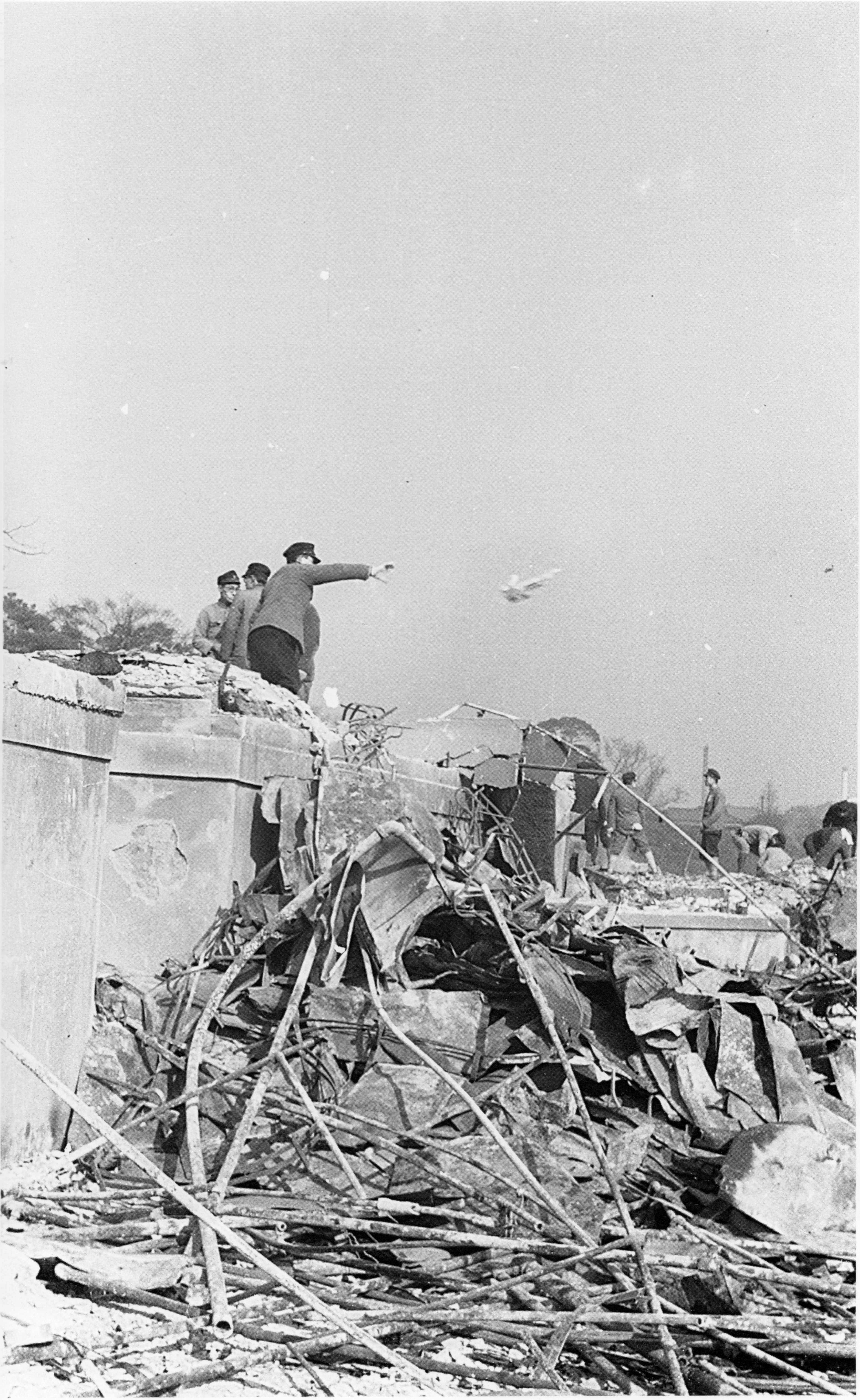 Students of Nippon Medical School clearing the school bombed by US force